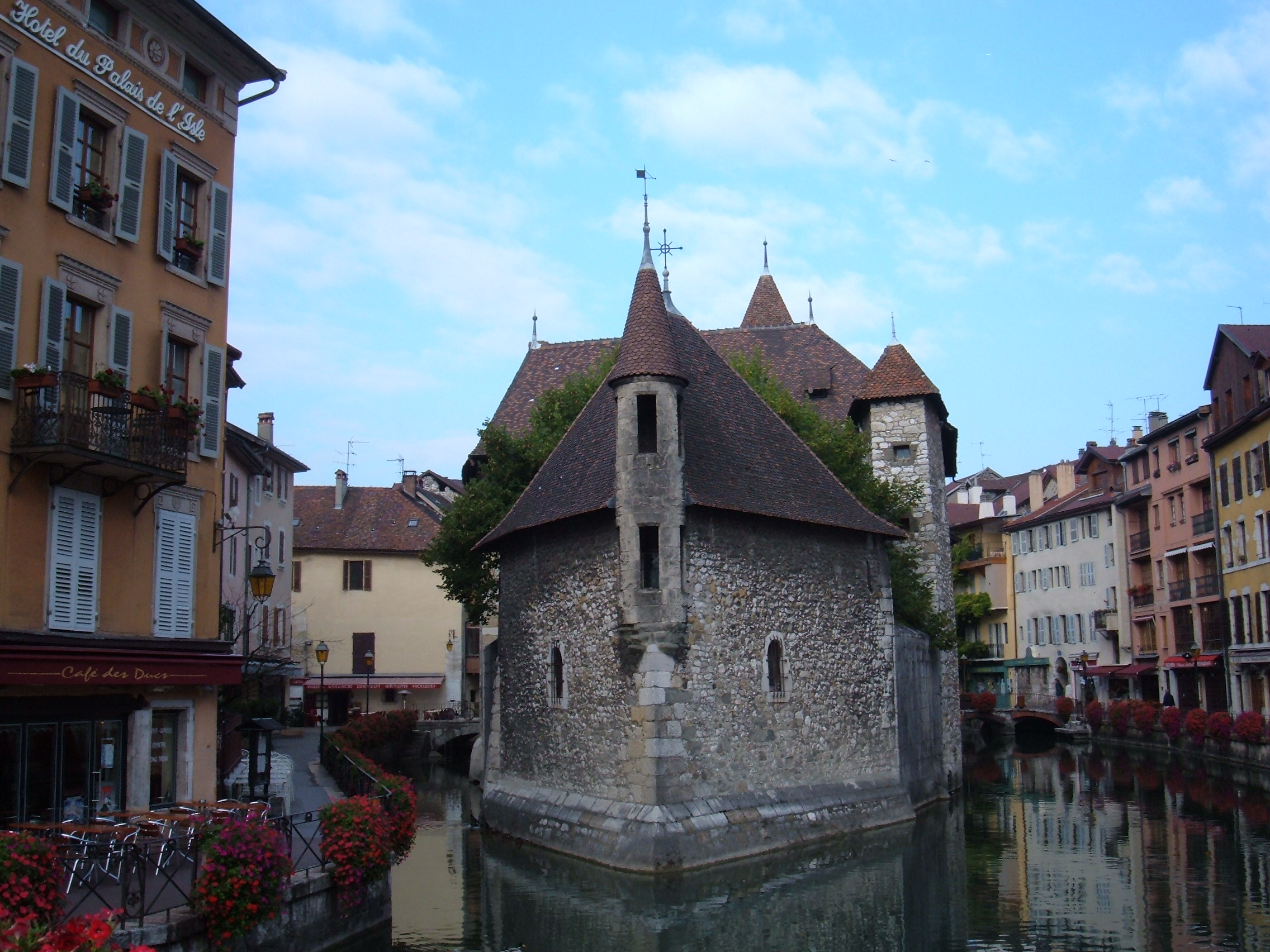 The Palais de l'Isle in Annecy, Rhône-Alpes region, France.